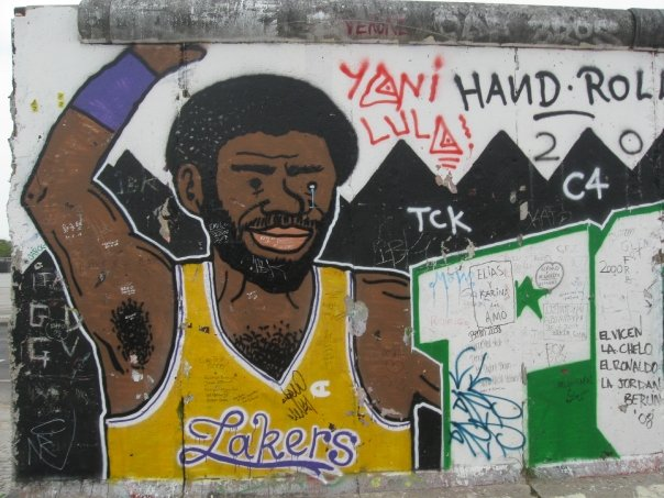 A graffiti art depiction of Kareem Abdul Jabbar as a Los Angeles Laker on the East Side Gallery of the Berlin Wall by french graffiti artist POM.